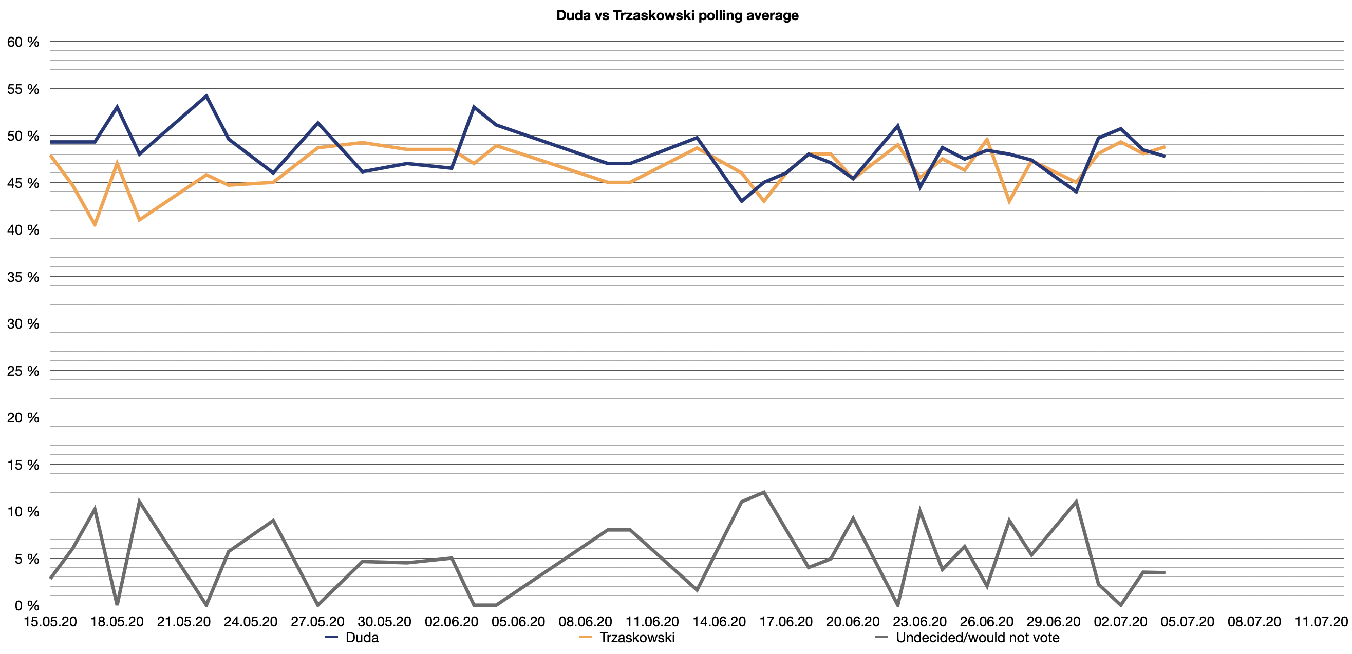 Duda vs Trzaskowski polls average